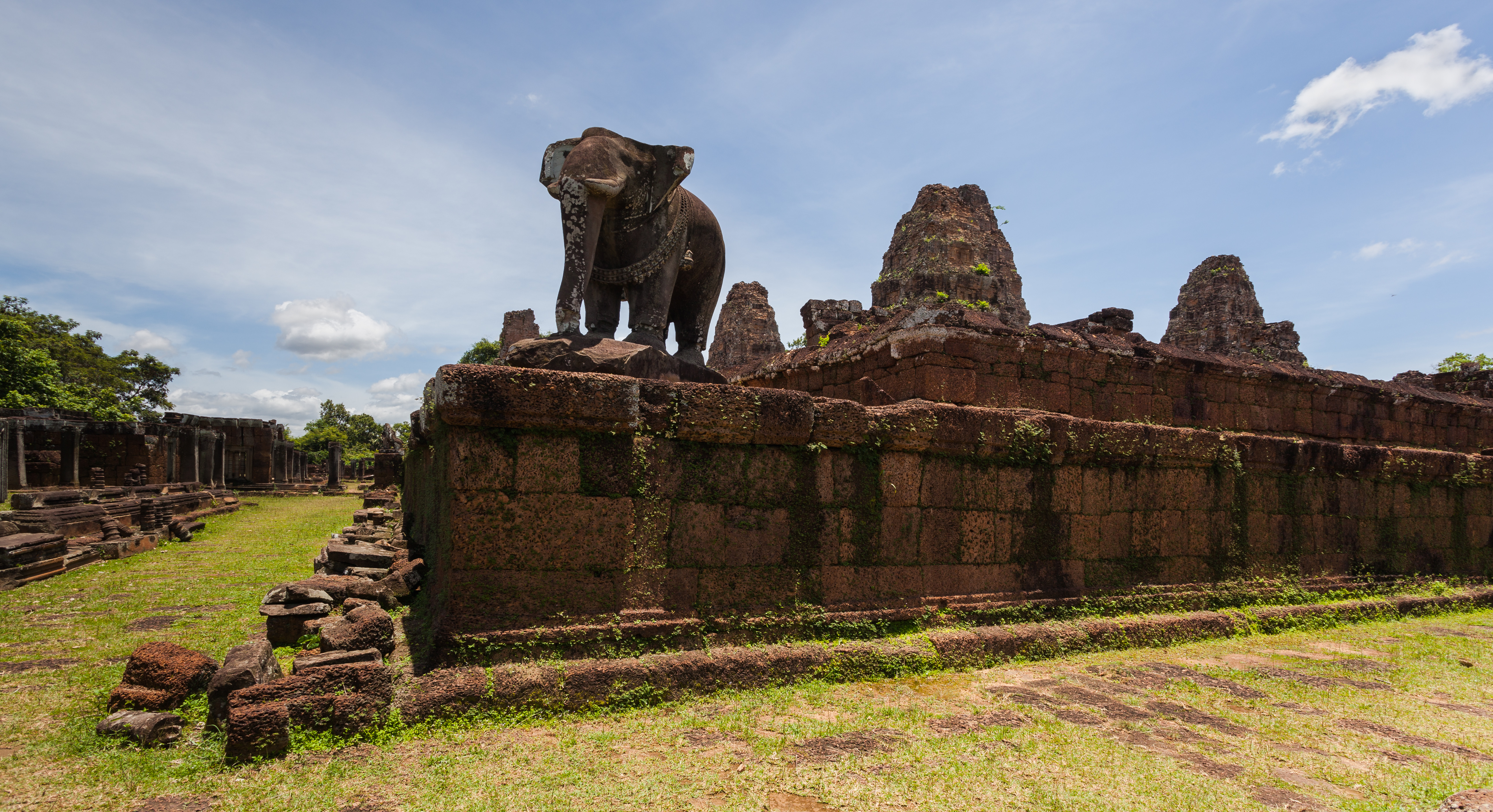 Mebon Oriental, Angkor, Cambodia